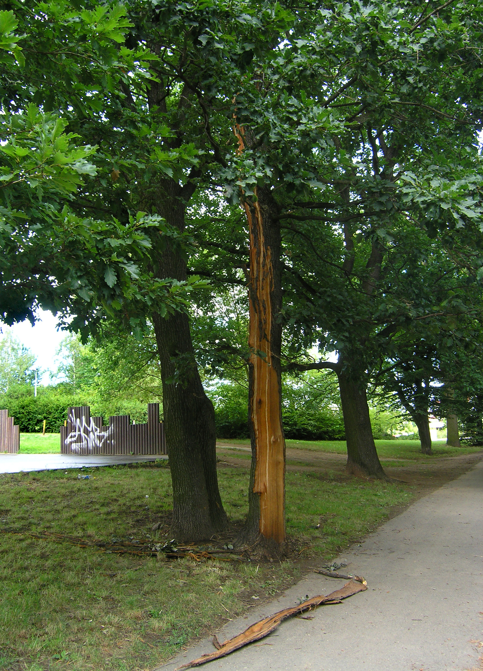 Lightning damage of a tree in a east part of Kunratický forest, Prague